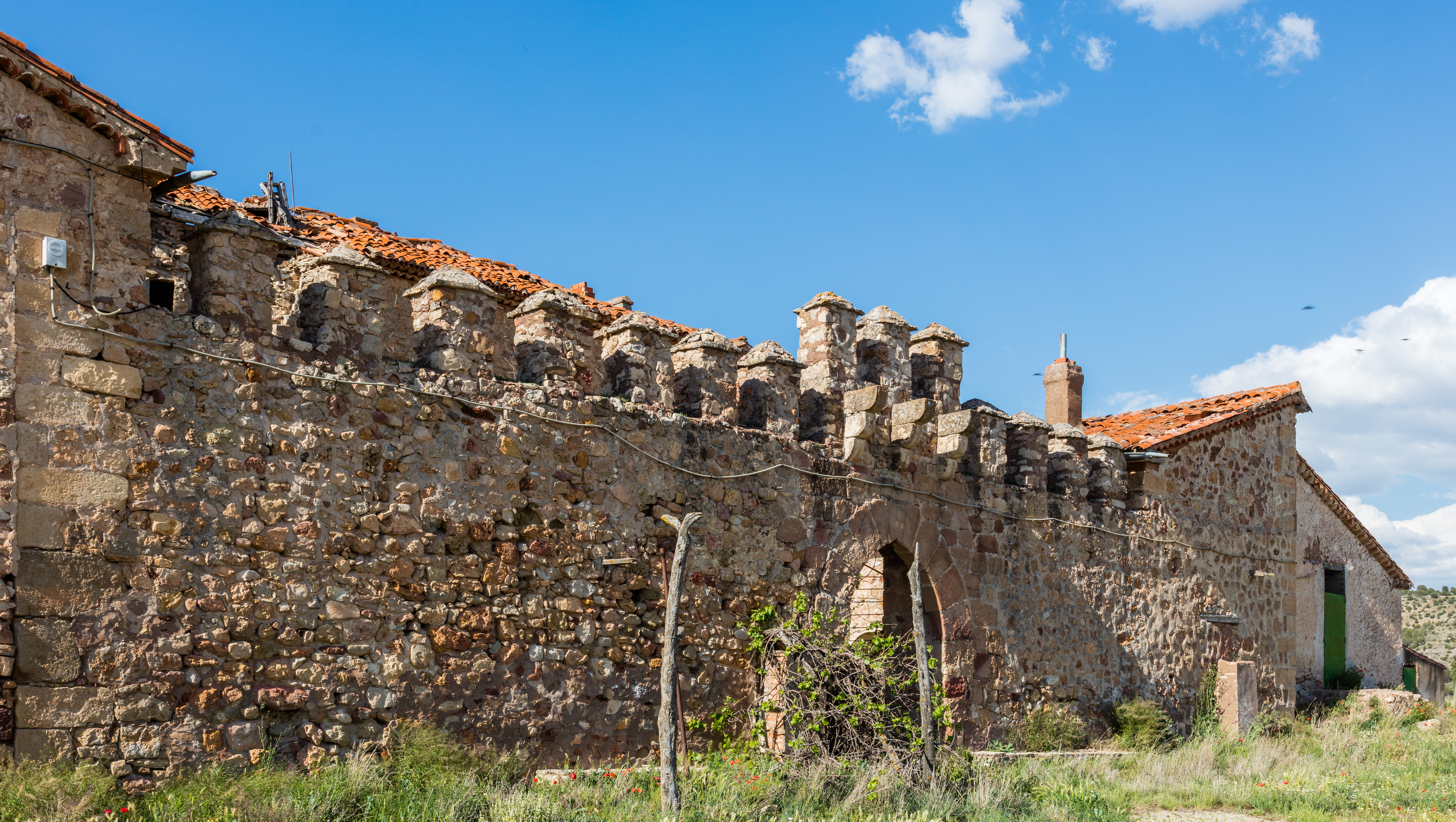 Fortified house of Vega de Arias, Tierzo, Guadalajara, Spain